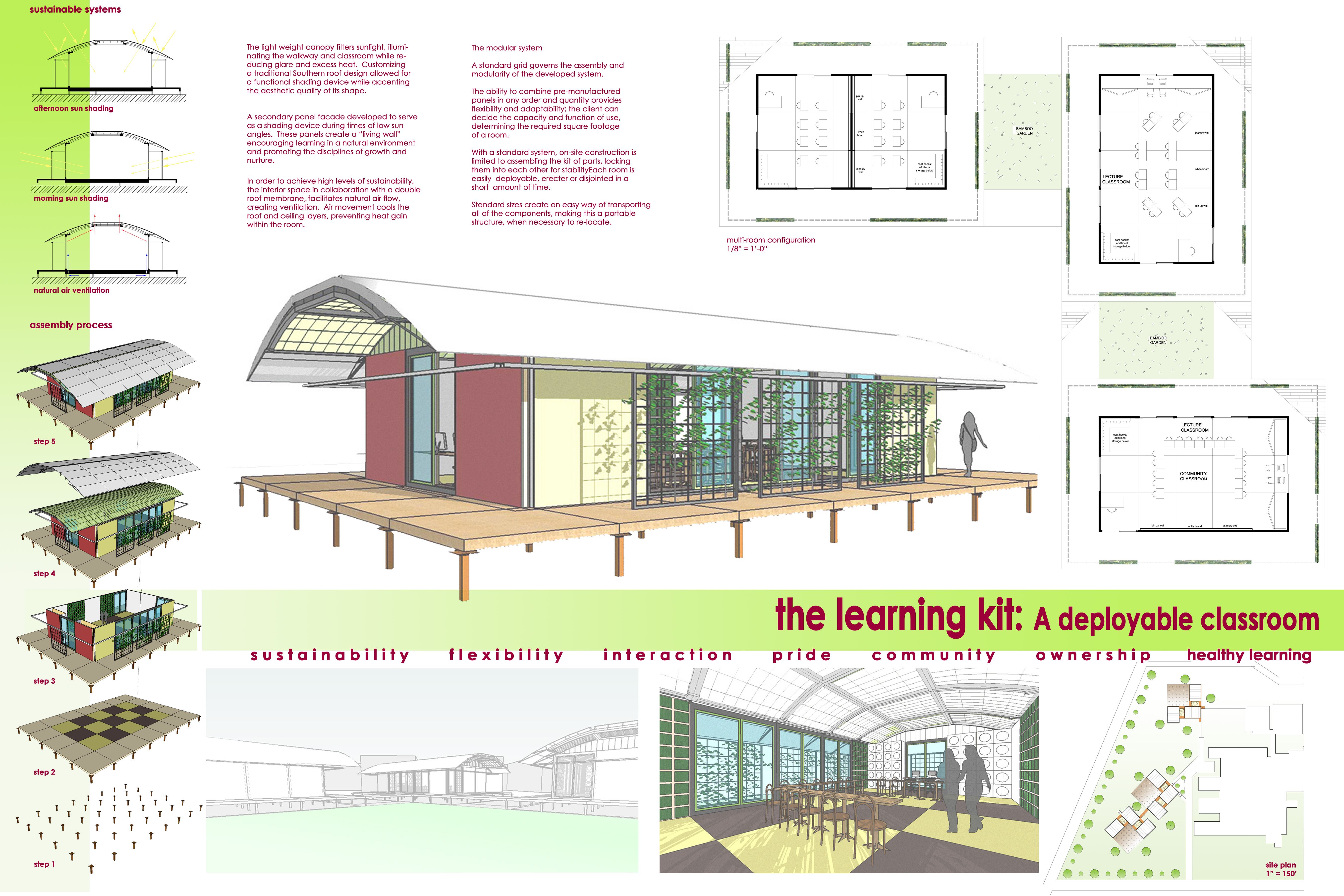 Sustainable Portable Classroom - The Learning Kit: The project investigates the idea that portable classrooms can not only function in today's school environment but facilitate healthy, sustainable life styles for students. The use of a modular system allows the project to be quickly constructed without the need of heavy equipment, and the ability to interchange various pre-manufactured panels based on the teacher's and student's needs. The roof is constructed of a translucent sandwich panel, under a lightweight canopy; providing an abundance of natural light. A secondary panel system allows further shading of the structure, as well as opportunities to expand the classroom beyond the class walls. The structure achieves a high level of sustainability by facilitating the natural air flow.